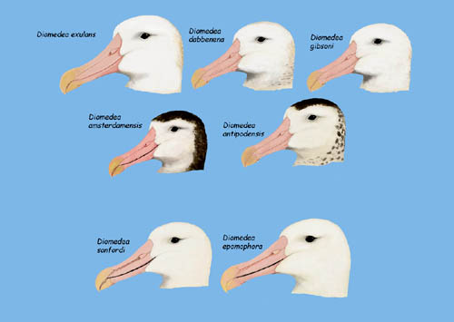 Heads of the seven species of great albatross (genus Diomedea): Top row: D. exulans, D. dabbenena, D. [a. ]gibsoni; middle row: D. amsterdamensis, D. antipodensis; bottom row: D. sanfordi, D. epomophora. My own work, which I freely release into the public domain